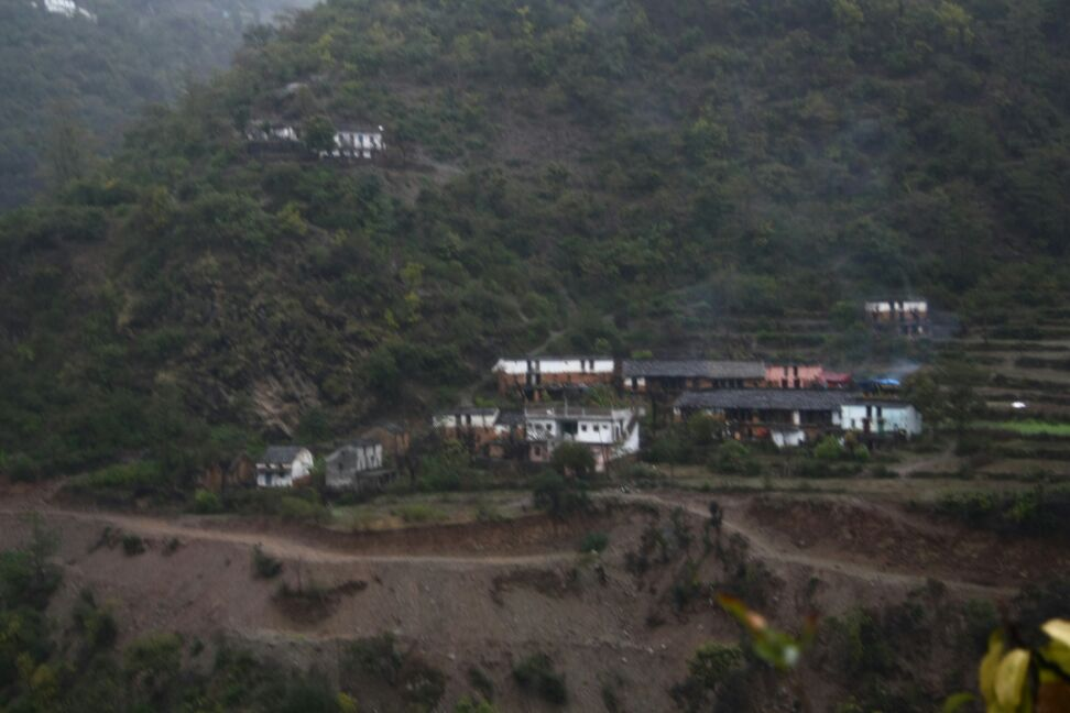 Maroda View